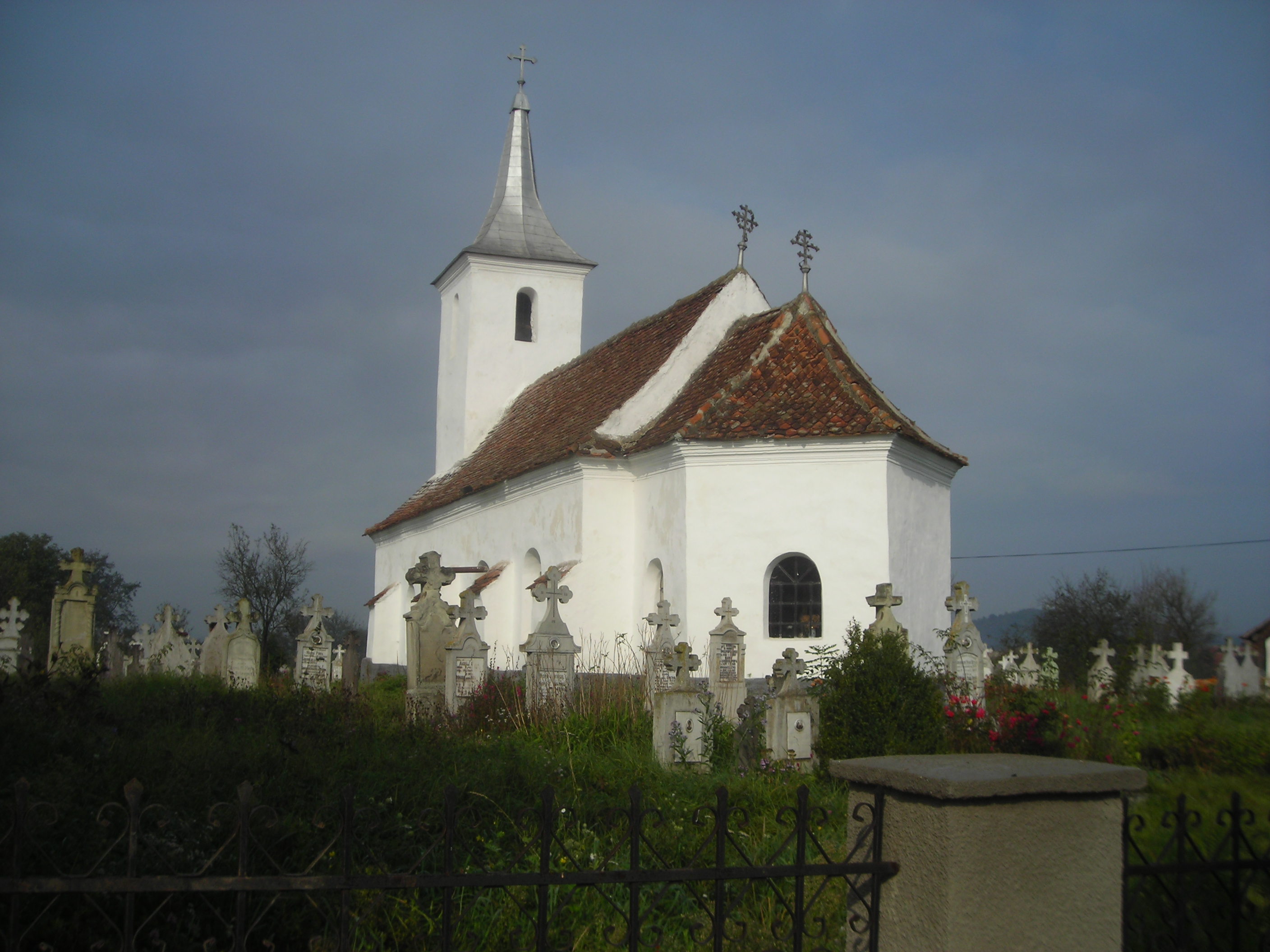 Cuvioasa Paraschiva Church in Comana de Jos